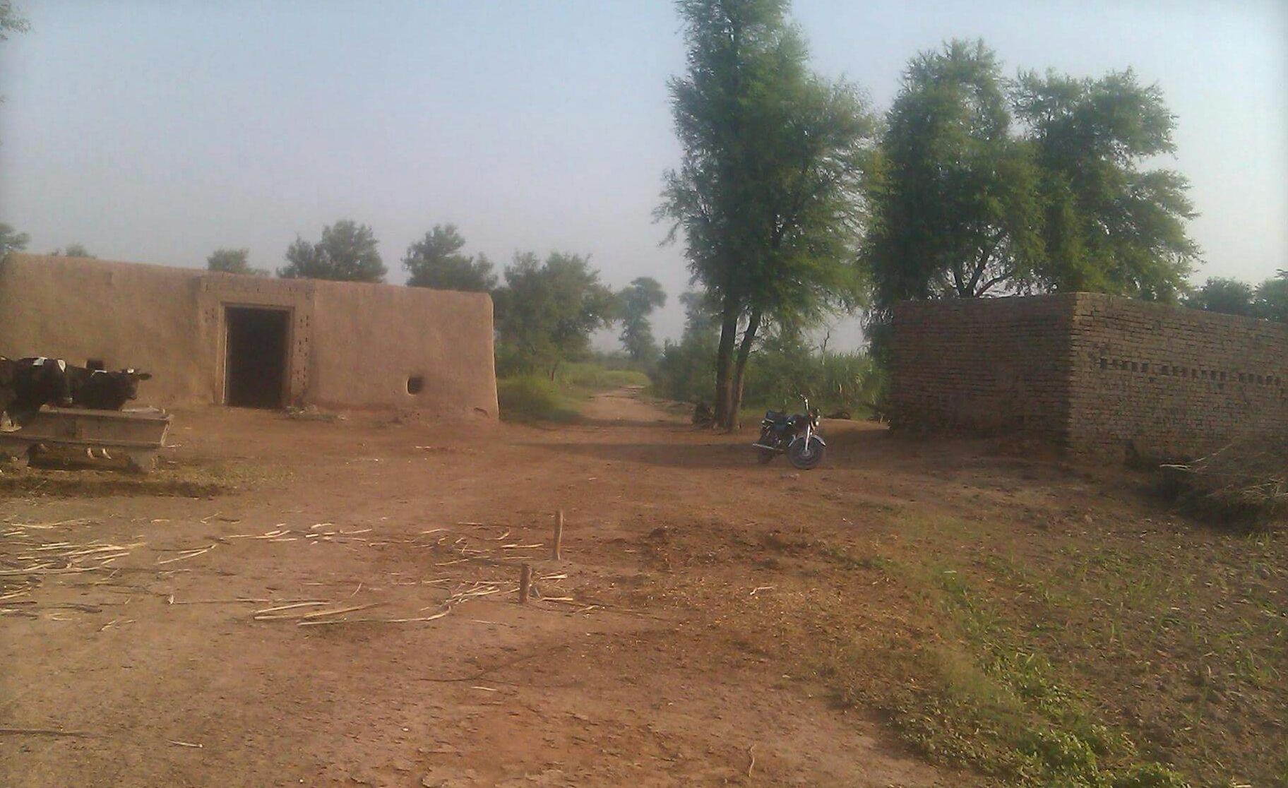 I also Uploaded this Photo on Botala Facebook Page & on website